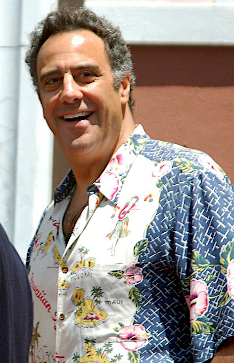 Brad Garrett at a ceremony for Patricia Heaton to receive a star on the Hollywood Walk of Fame.